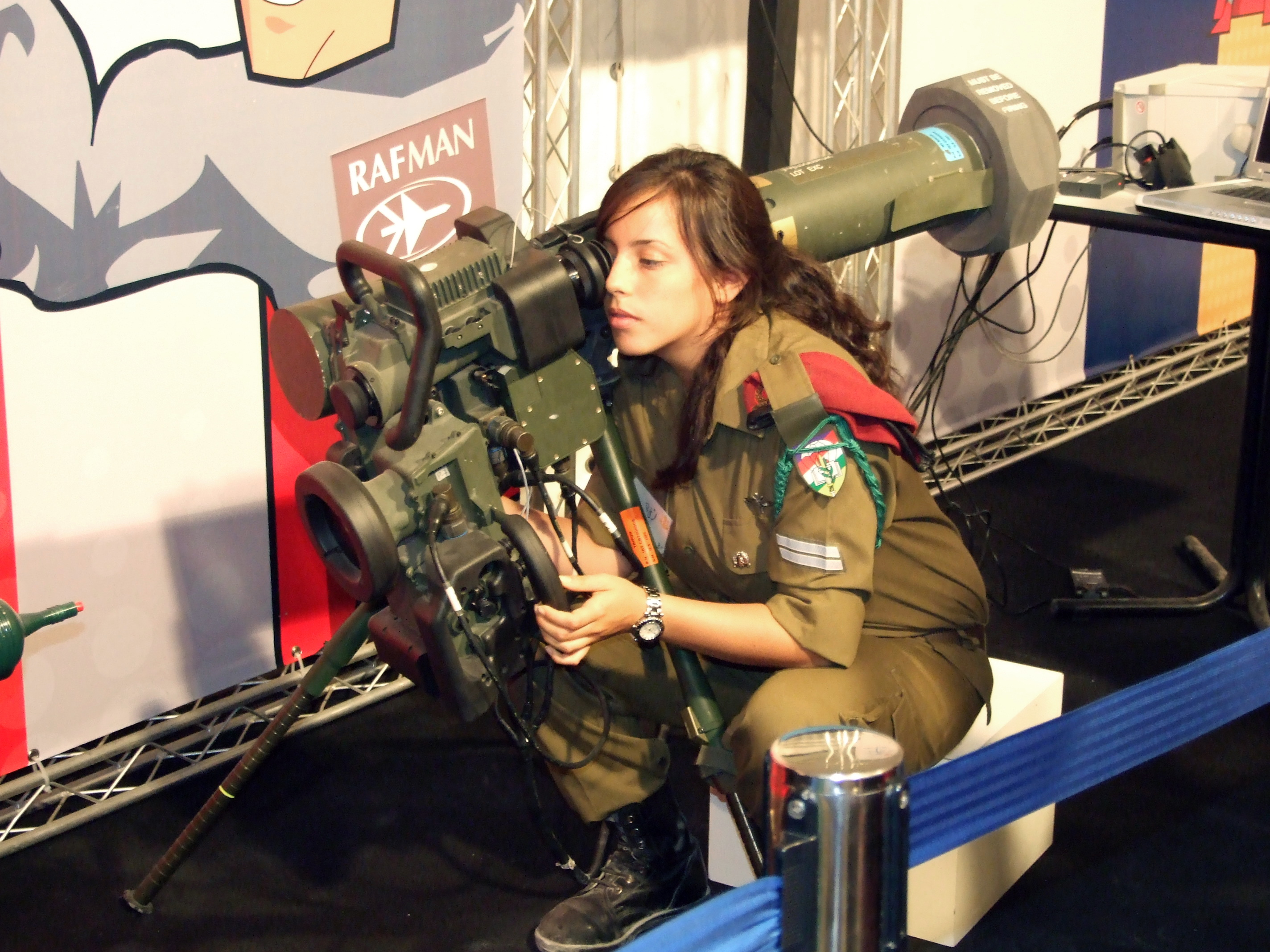 Spike LR ATGM